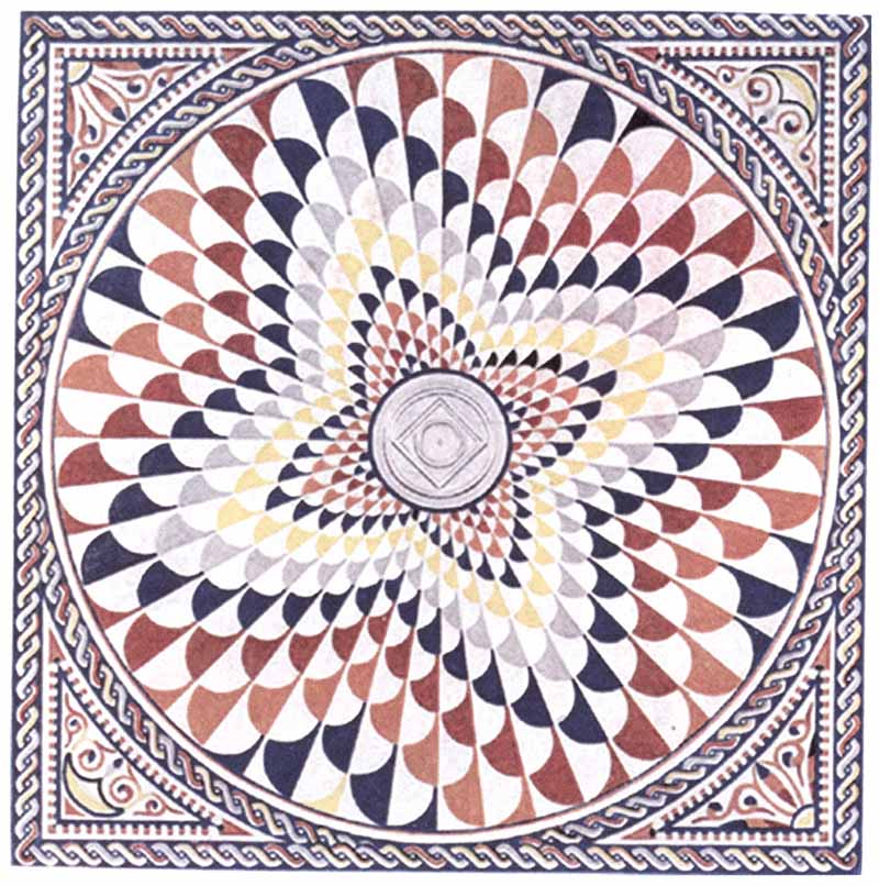 Mosaic art from Għajn Tuffieħa, Malta.